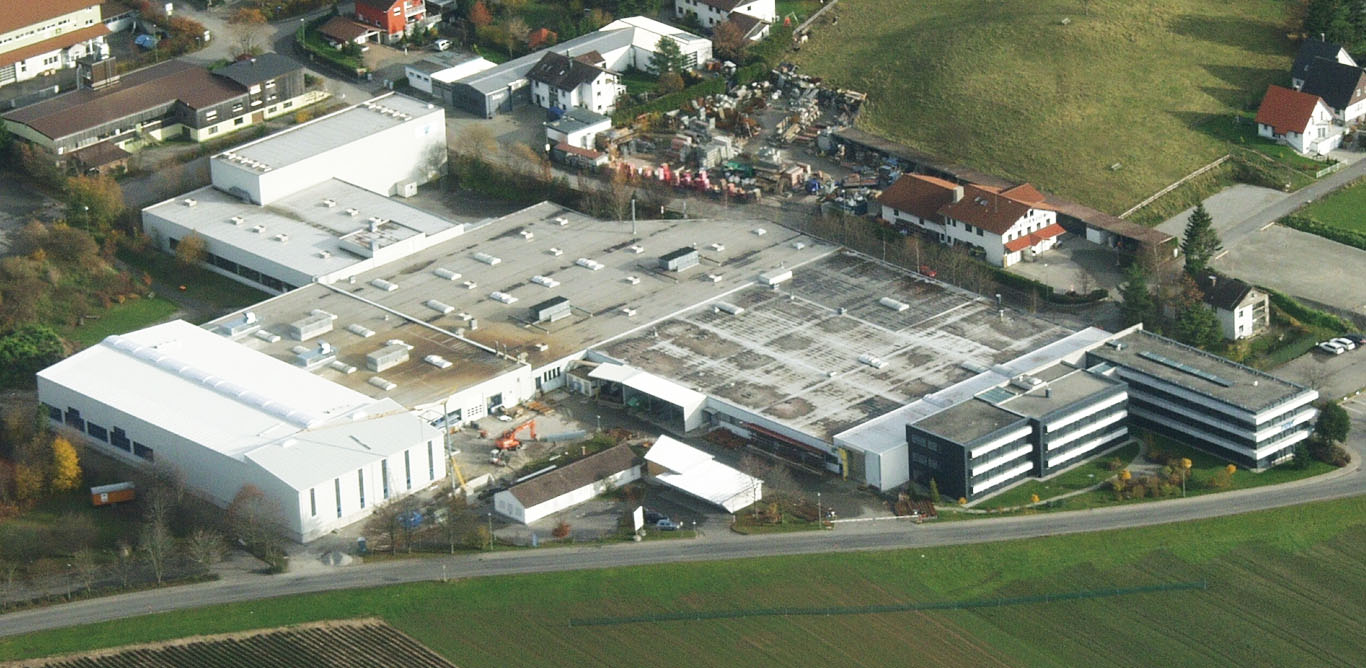 An aerial view of the Chr. Mayr GmbH & Co. KG